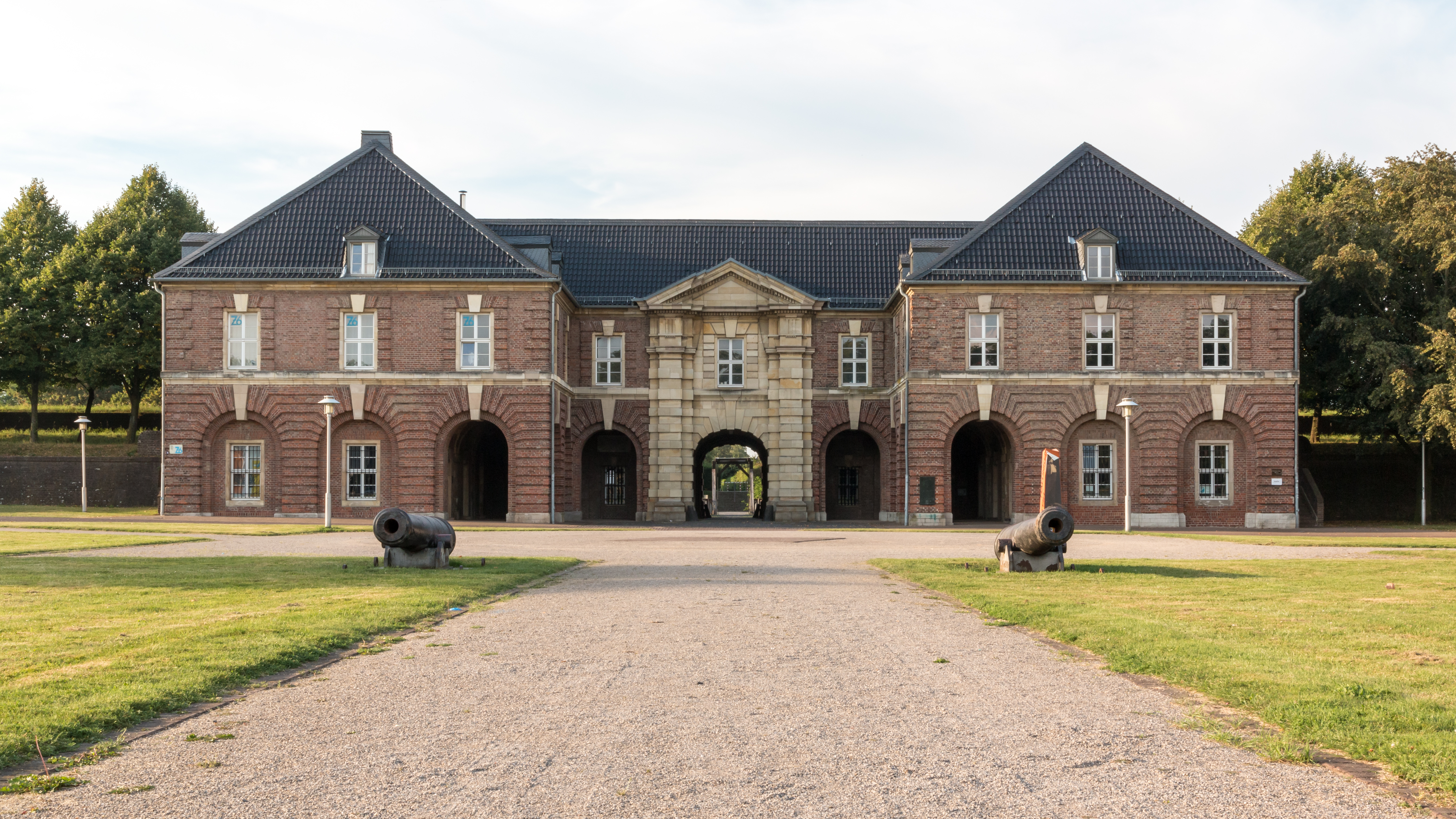 Citadel in Wesel, North Rhine-Westphalia, Germany This image shows a heritage building in Germany, located in the North Rhine-Westphalian city Wesel (no. 4).